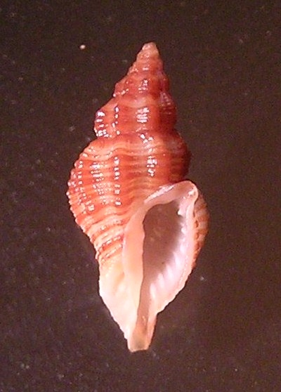 Orania ficula Reeve, 1845, a murex snail from the family Muricidae; Philippines